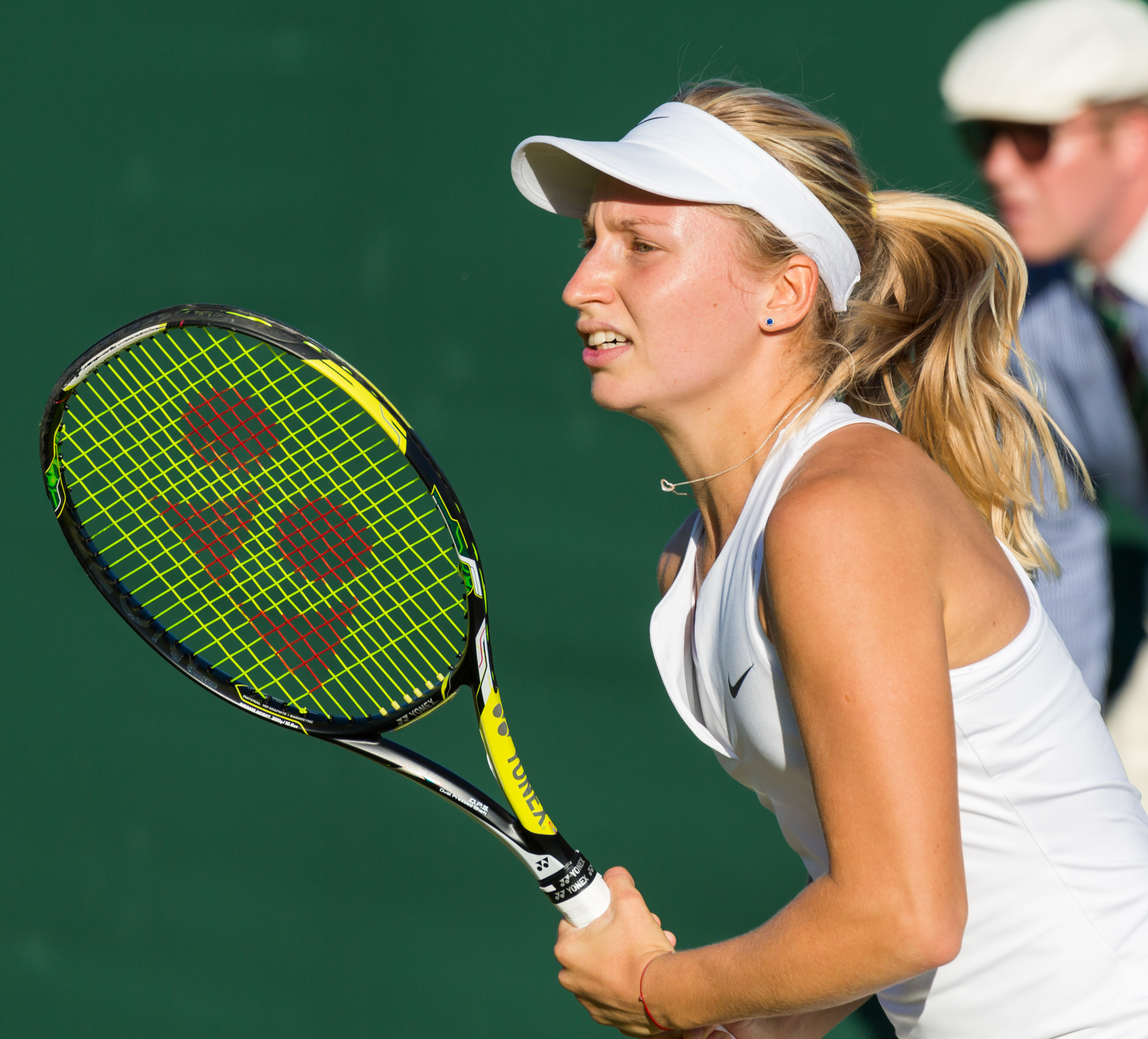 Daria Gavrilova competing in the first round of the 2015 Wimbledon Championships against Irina-Camelia Begu.